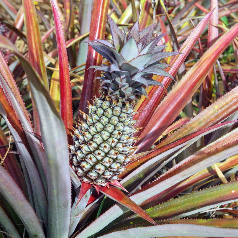 Black Pineapple, Antigua